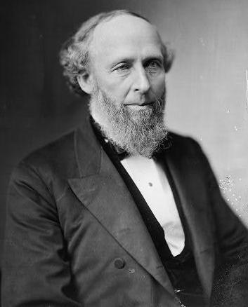 Henry Harrison Hathorn, Congressman from New York